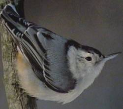 White-breasted Nuthatch